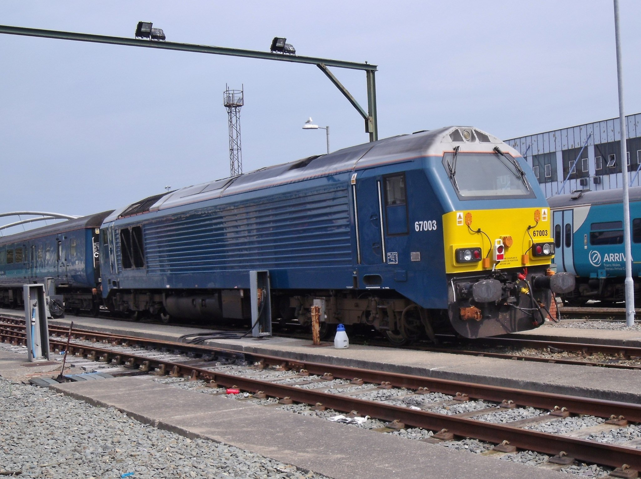 Built 1999-2000 by Alstom/General Motors in Valecia Spain. One of three leased by Arriva trains from DB Schenker these engines are capable of 125mph. 67003 is seen here waiting at Holyhead station.